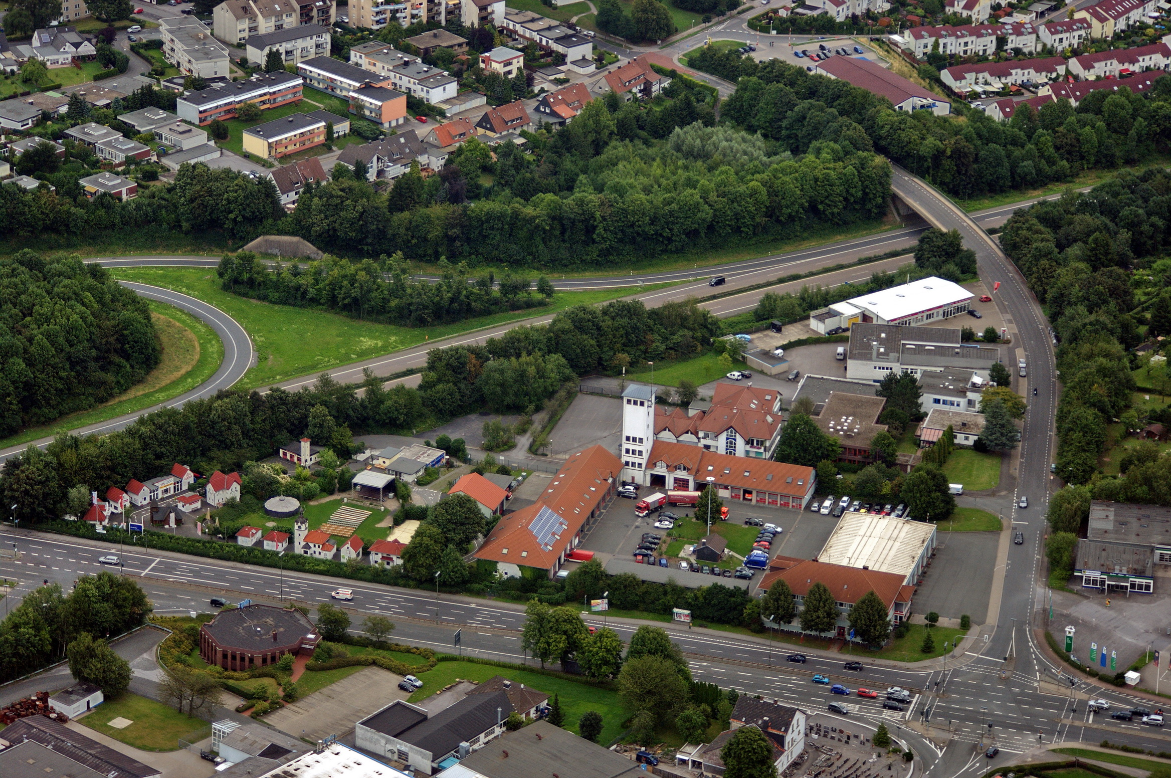 Fire station, Iserlohn with "Florian village"